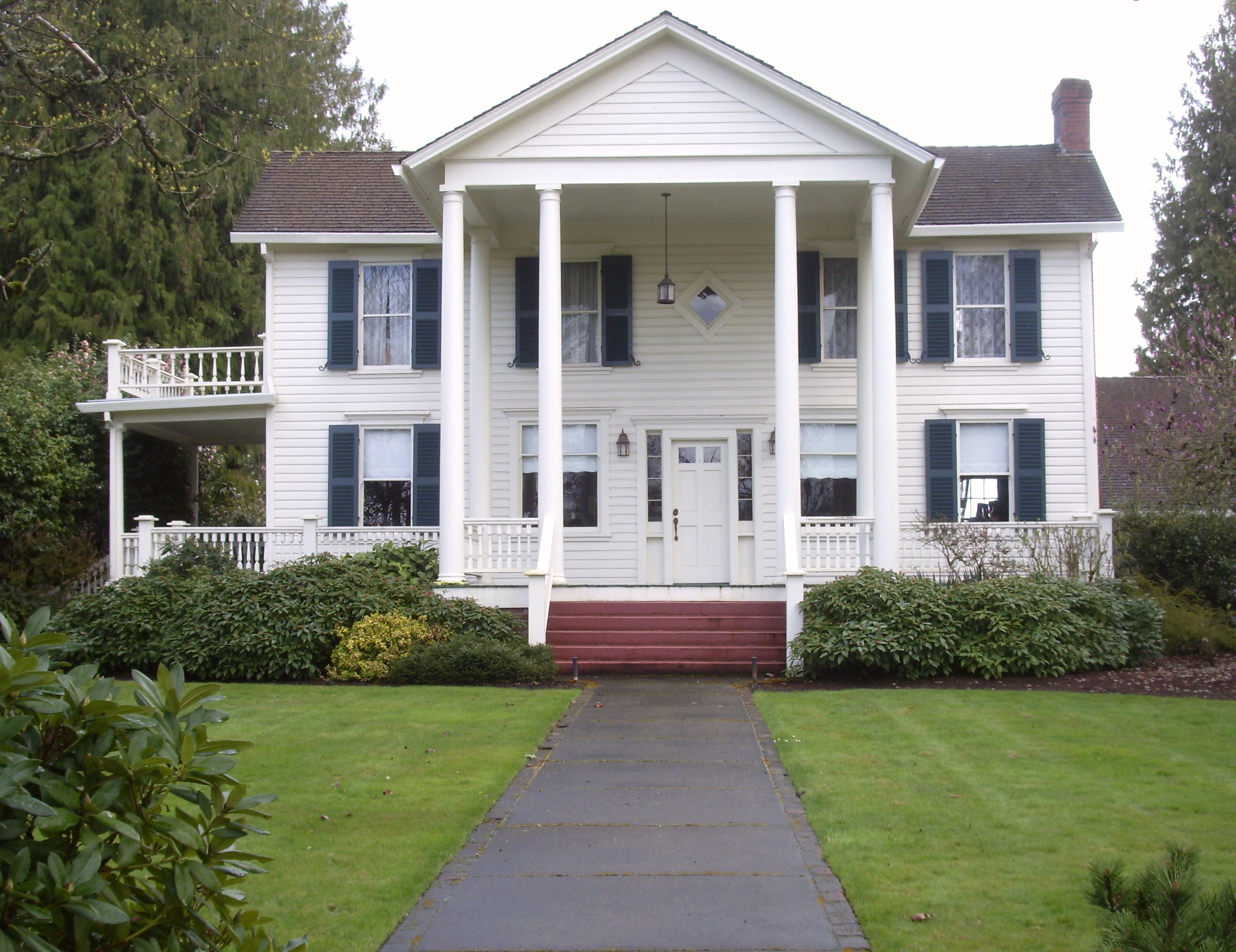 Ferry Street view of Palmer House in Dayton, Oregon.